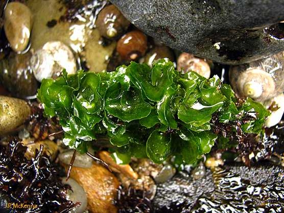 Ulva californica at Cabrillo National Monument, San Diego, California, USA. NPS photo, no copyright.